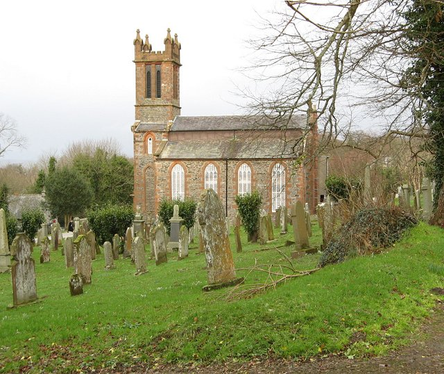 Kilmabreck Church The kirk in Creetown.